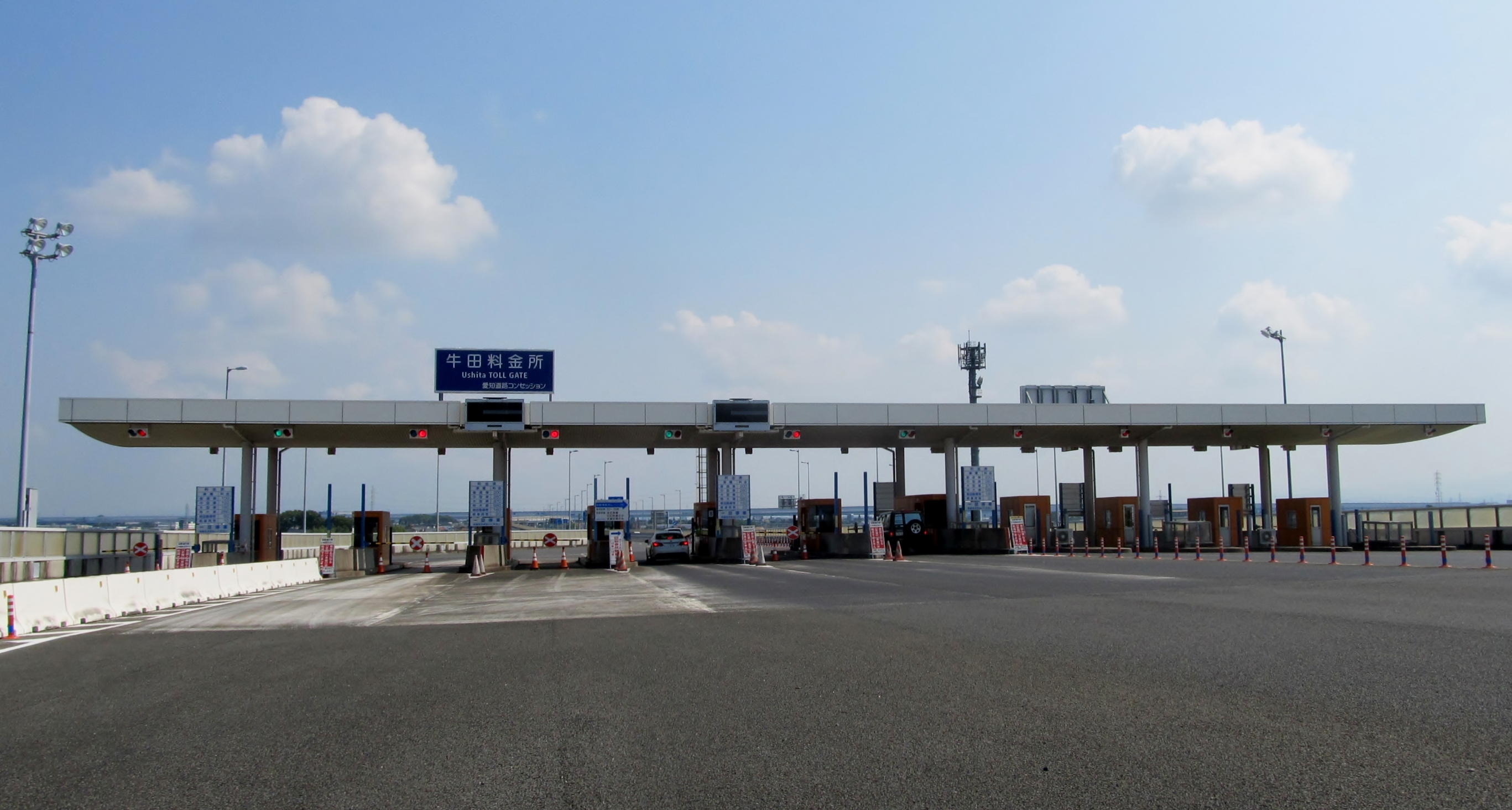 Kinuura-Toyota Road Ushita Toll Gate, Aichi Japan